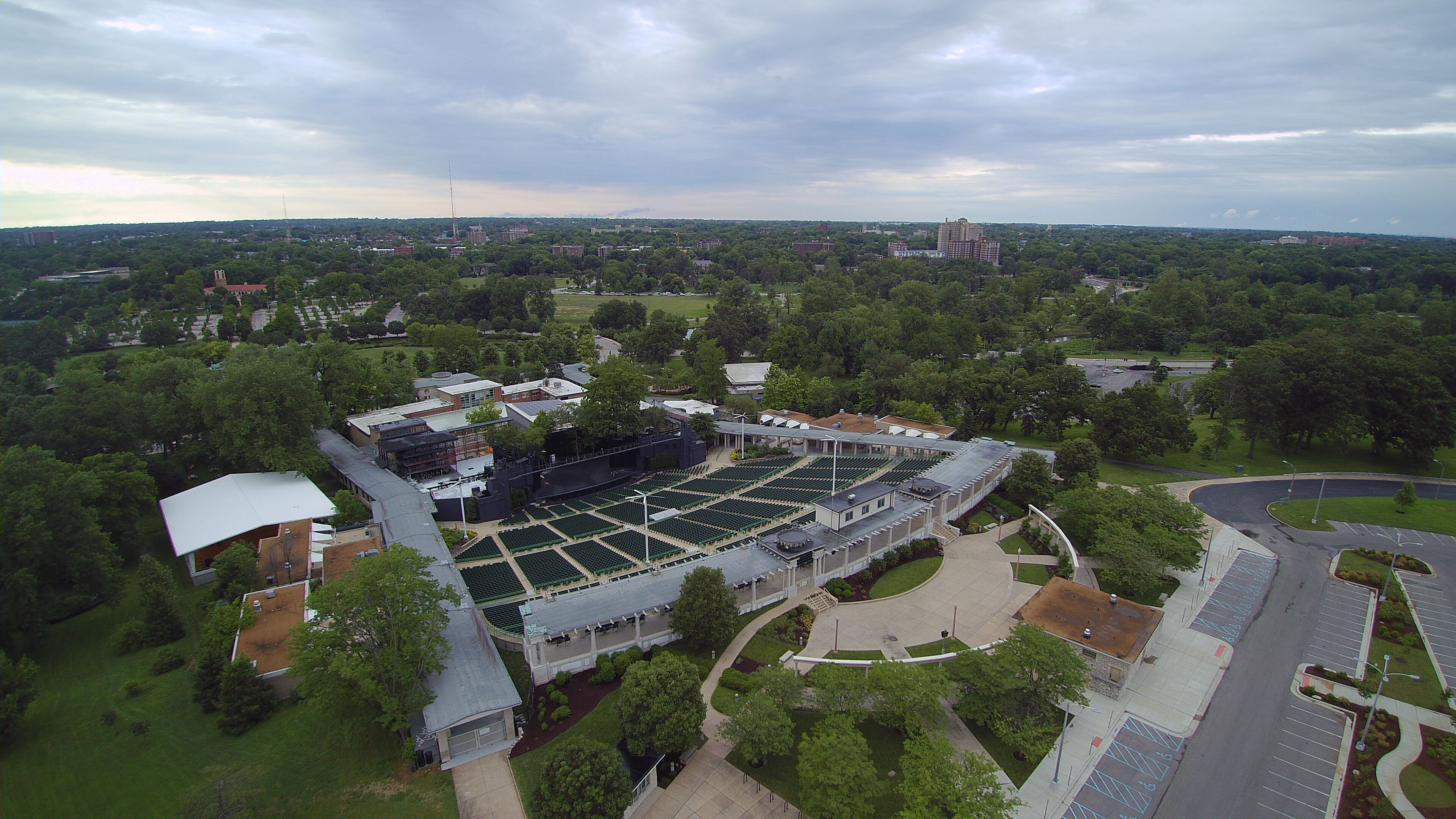 Aerial photo of the The Muny in St Louis, taken May 2017.